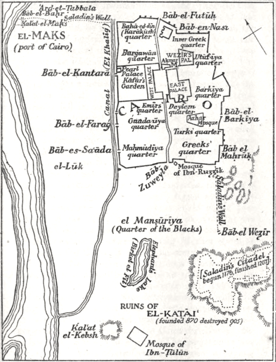 map of Cairo before 1200 A.D.